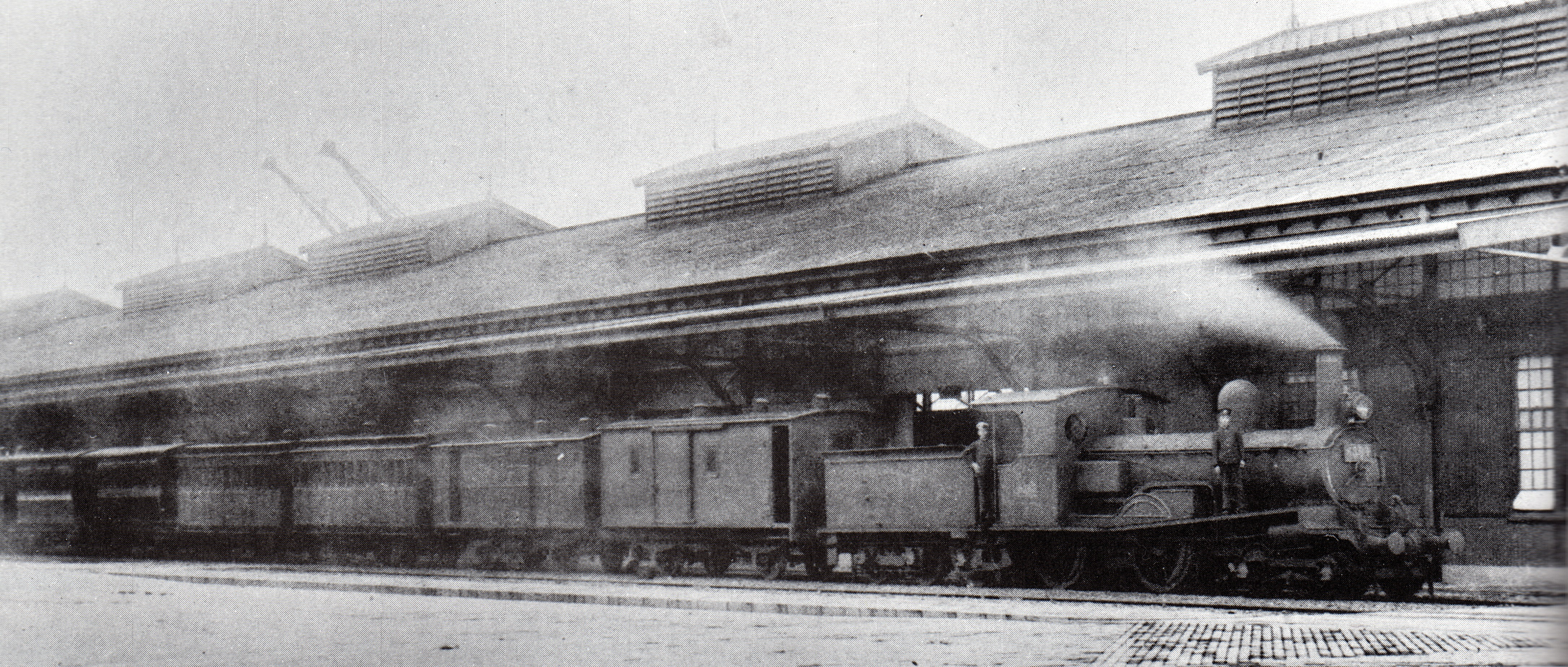 Japansese Government Railways type 6350 steam locomotive at Yokohamaminato station